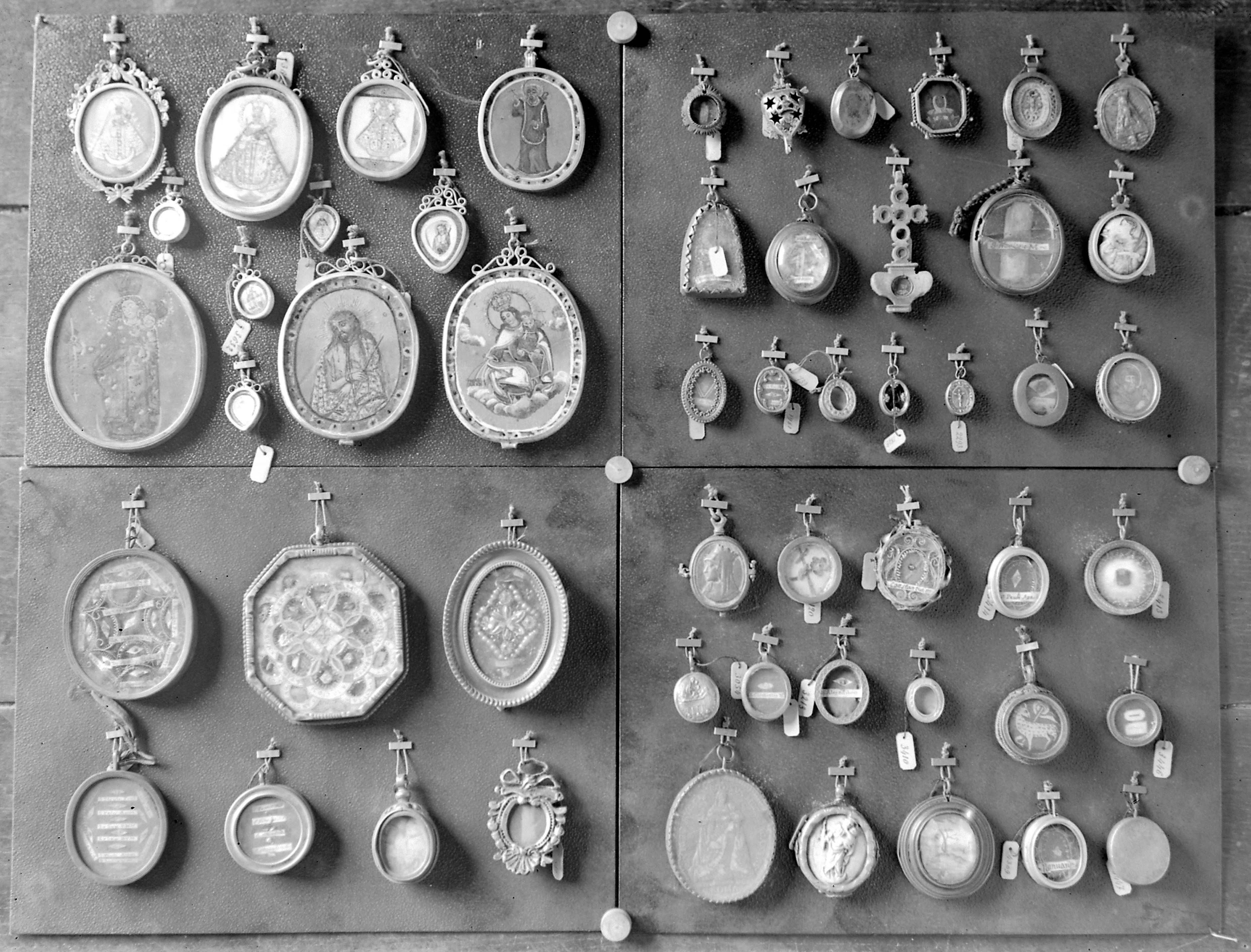 4 groups of medals Catholic & Orthodox. Mortillet collection Paris. Wellcome Images